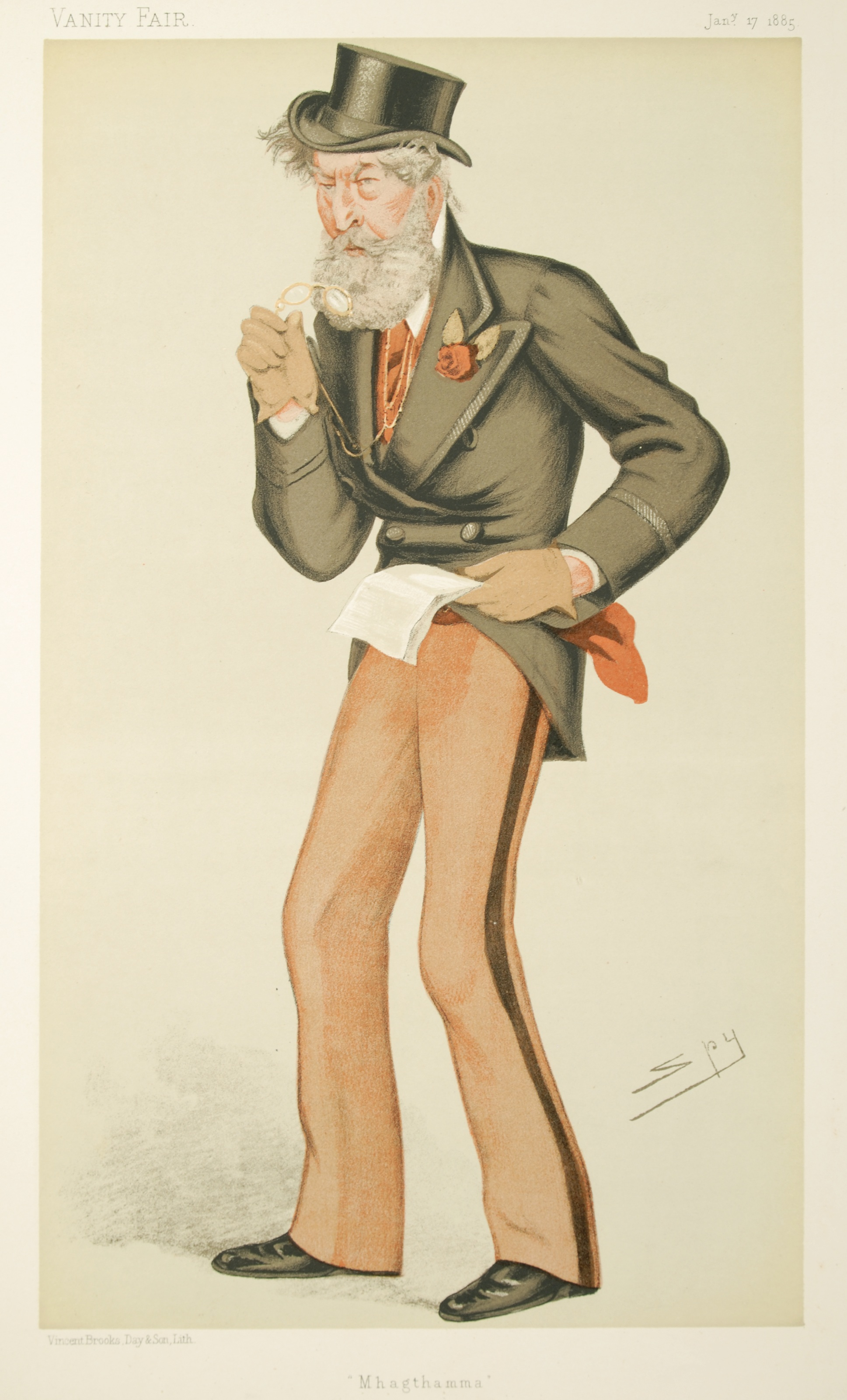 Statesmen No.458: Caricature of Col James Patrick Mahon MP. Caption reads: "Mhagthamma."